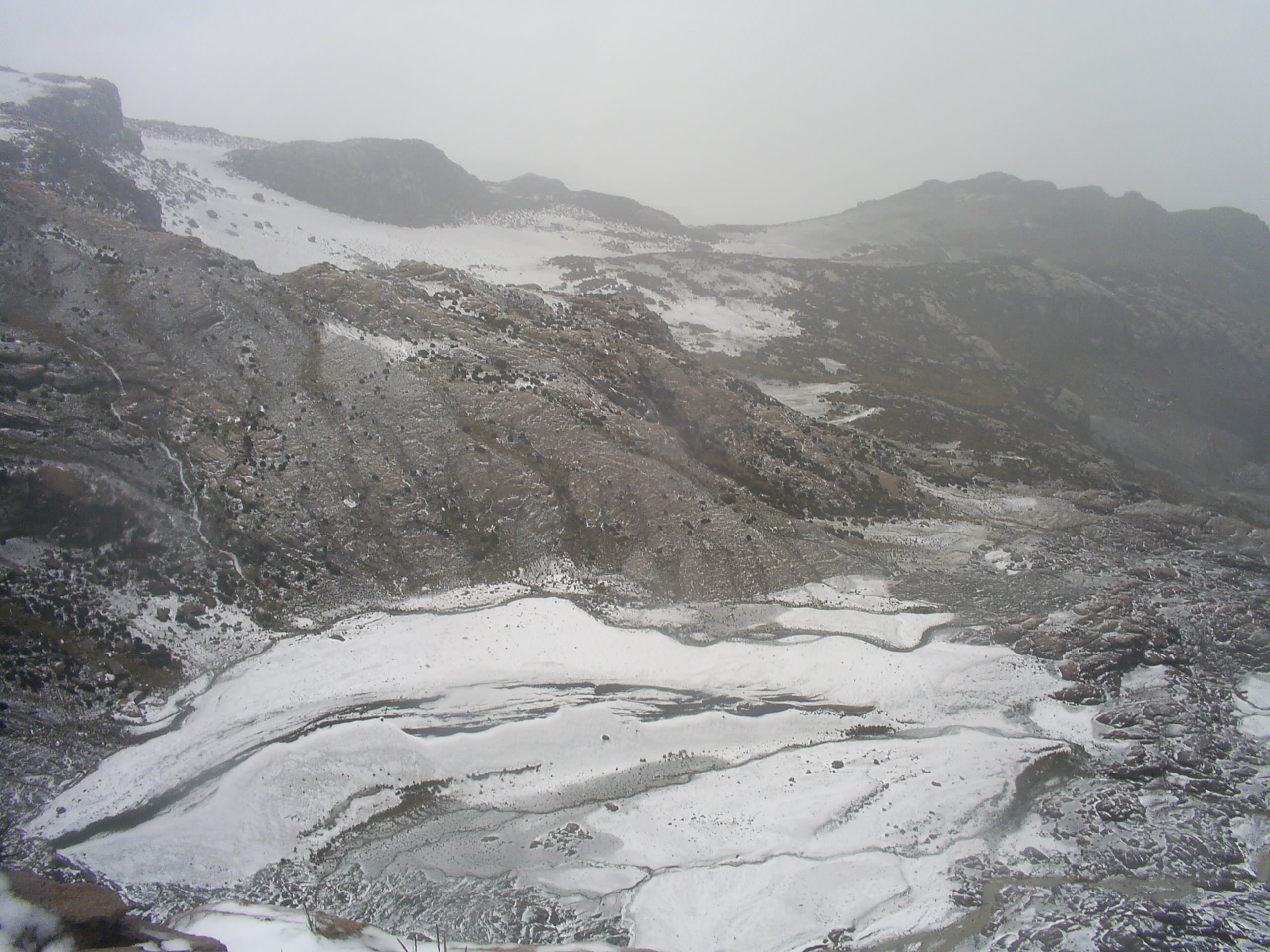 Nevado del Ruiz. Perennial snow originates the Chinchina river, Caldas, Columbia.